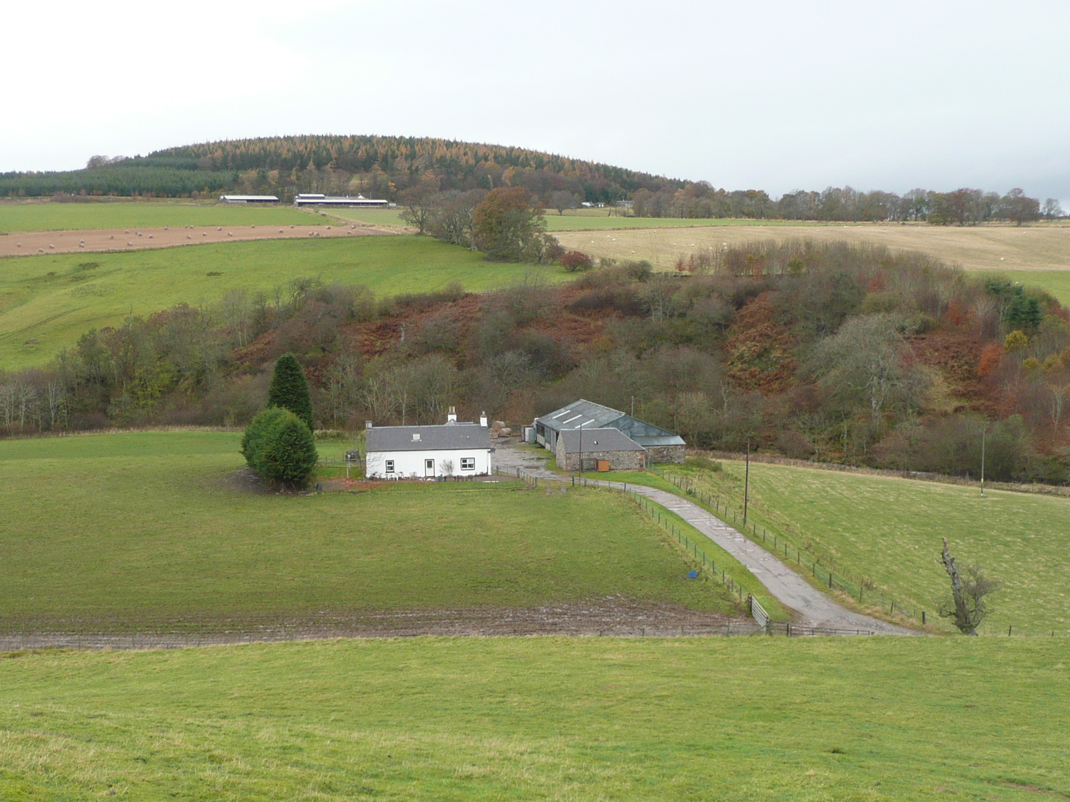 Prosenhaugh and Mile Hill